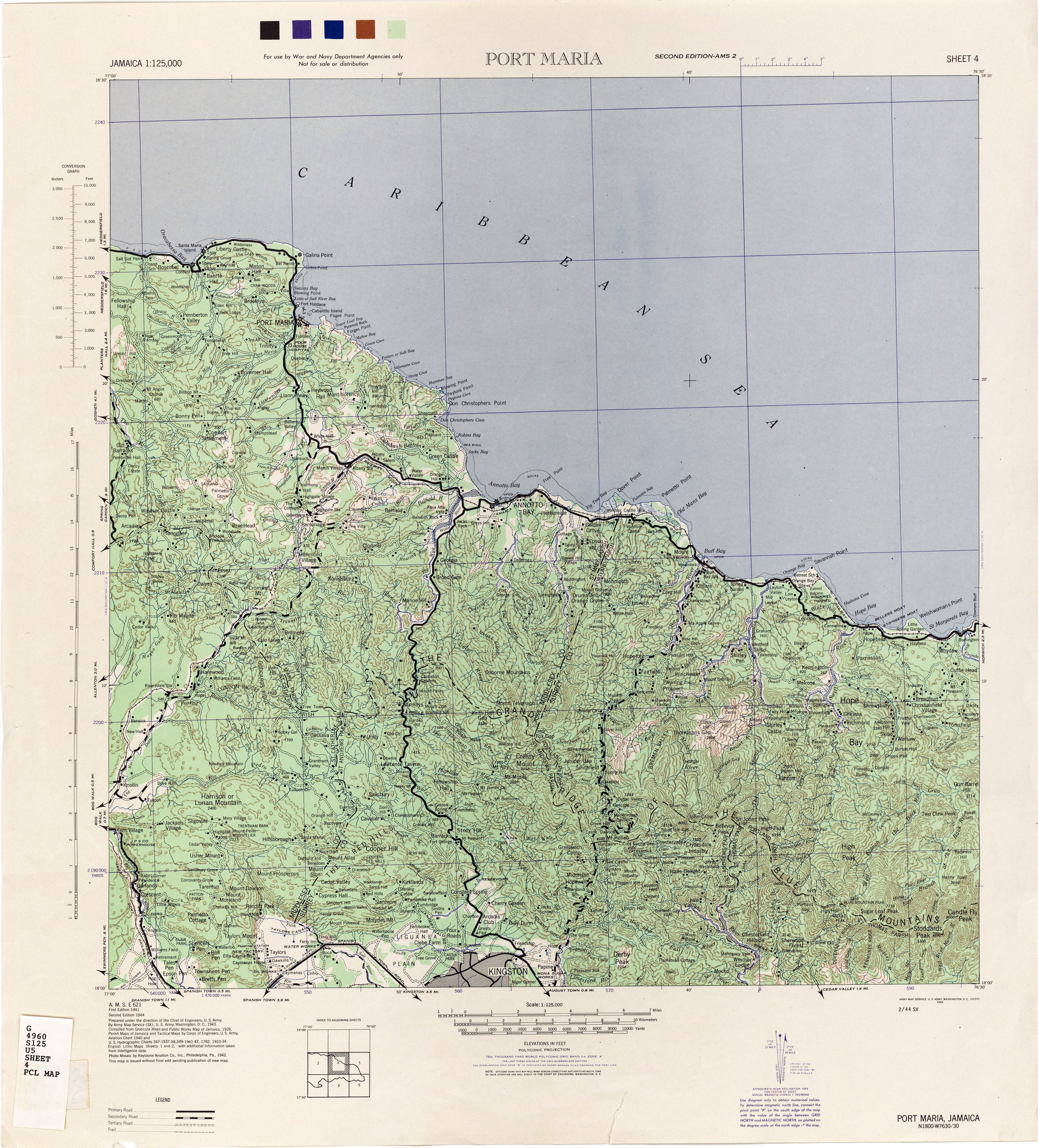 1:125,000 scale graticule map of the Port Maria area in 1944.